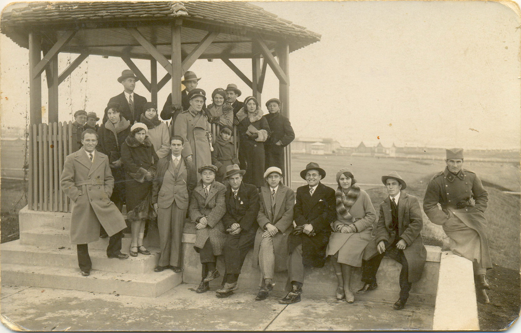 Трстенички соколи на једном од излета које су често организовали